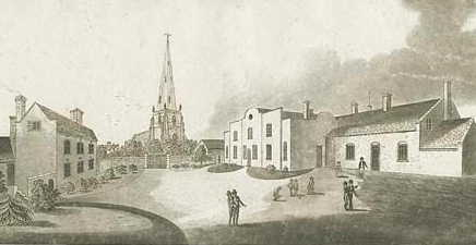 Brewood Grammar School in Brewood Staffordshire. The school and playground to the west of the church.